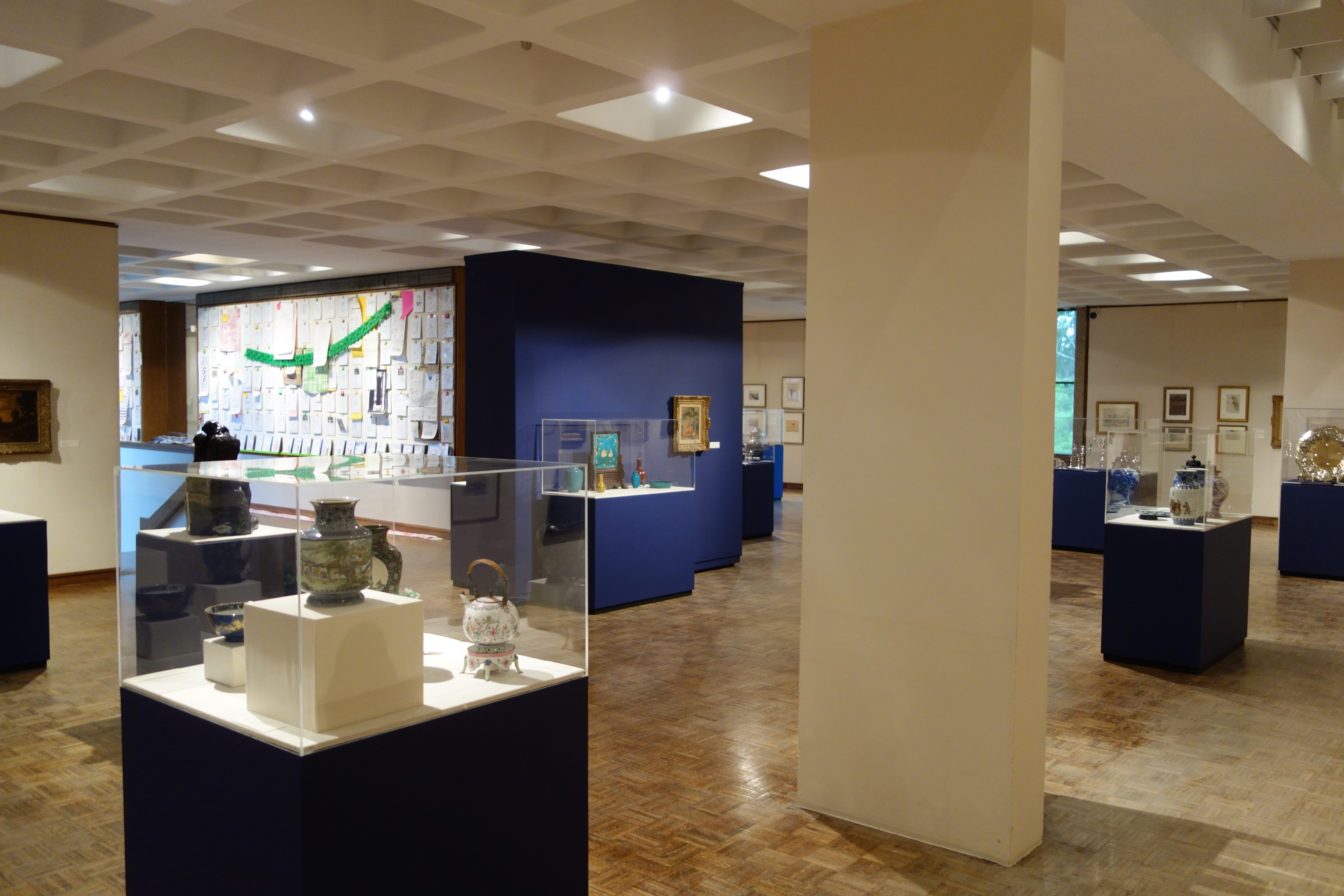 Interior view of the Huntington Museum of Art, Huntington, West Virginia, USA. Artwork is in the public domain because the artists died more than 70 years ago.